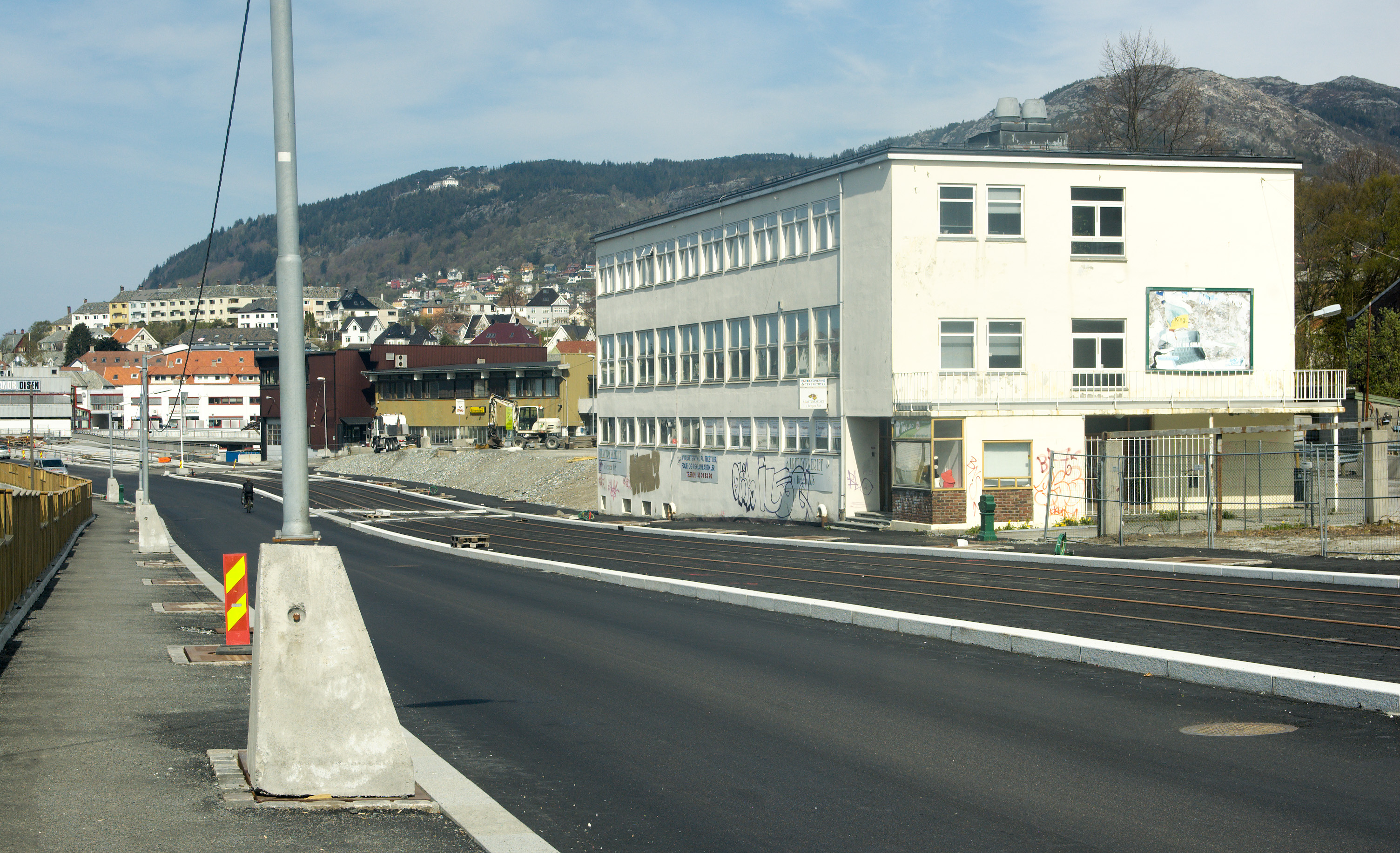 Bergen Light Rail tracks in Inndalsveien in Bergen, Norway.